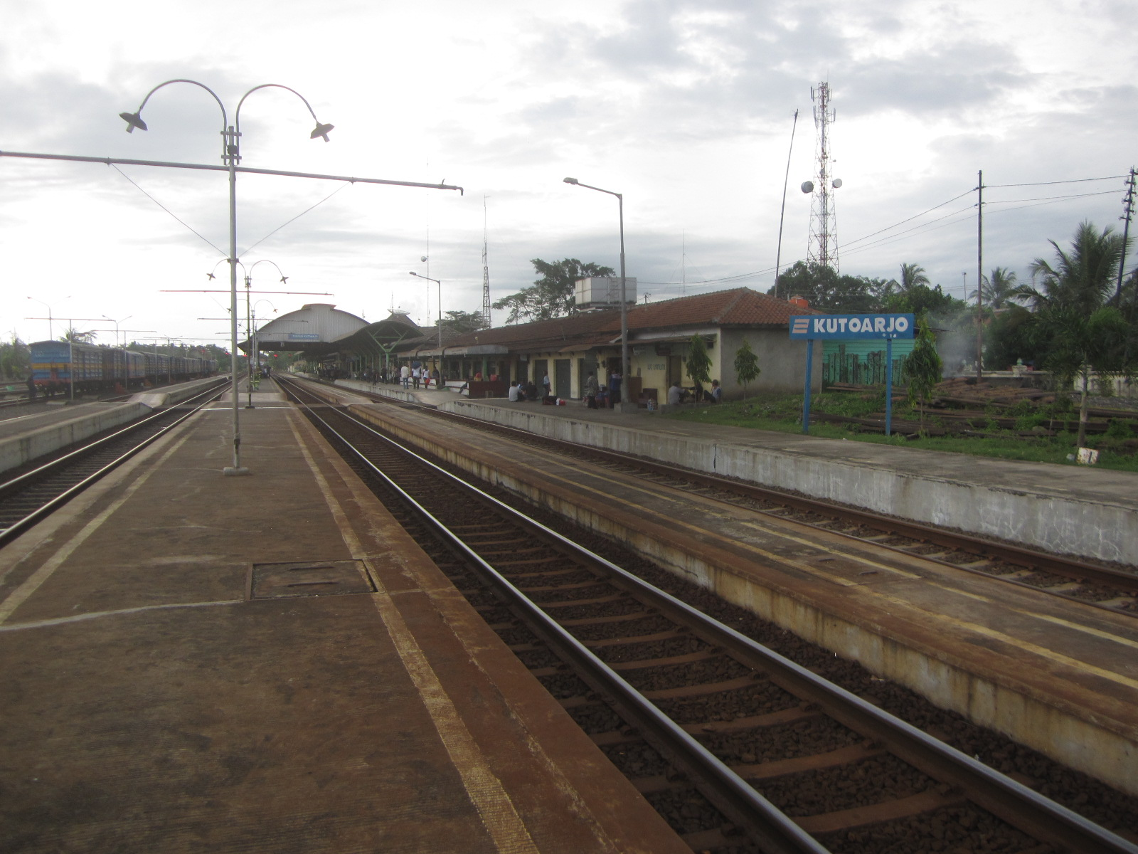 Kutoarjo Railway Station in the afternoon, about 3:39 PM Indonesian West Timezone.